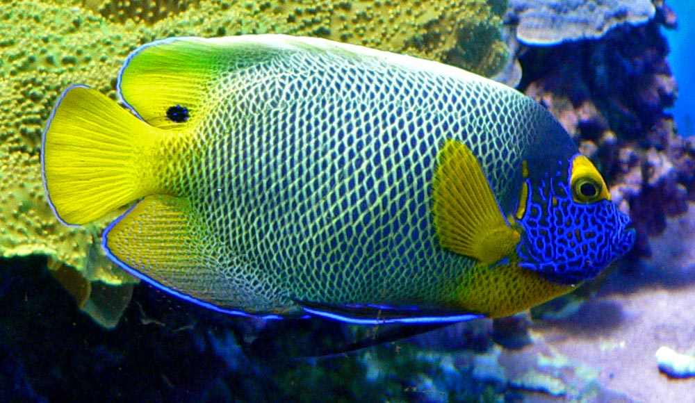 Photo of Pomacanthus xanthometopon at the Birch Aquarium in San Diego